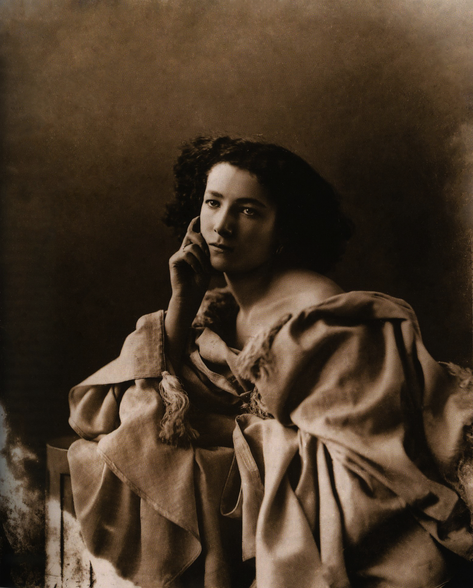 Photography of French actress Sarah Bernhardt by Félix Nadar